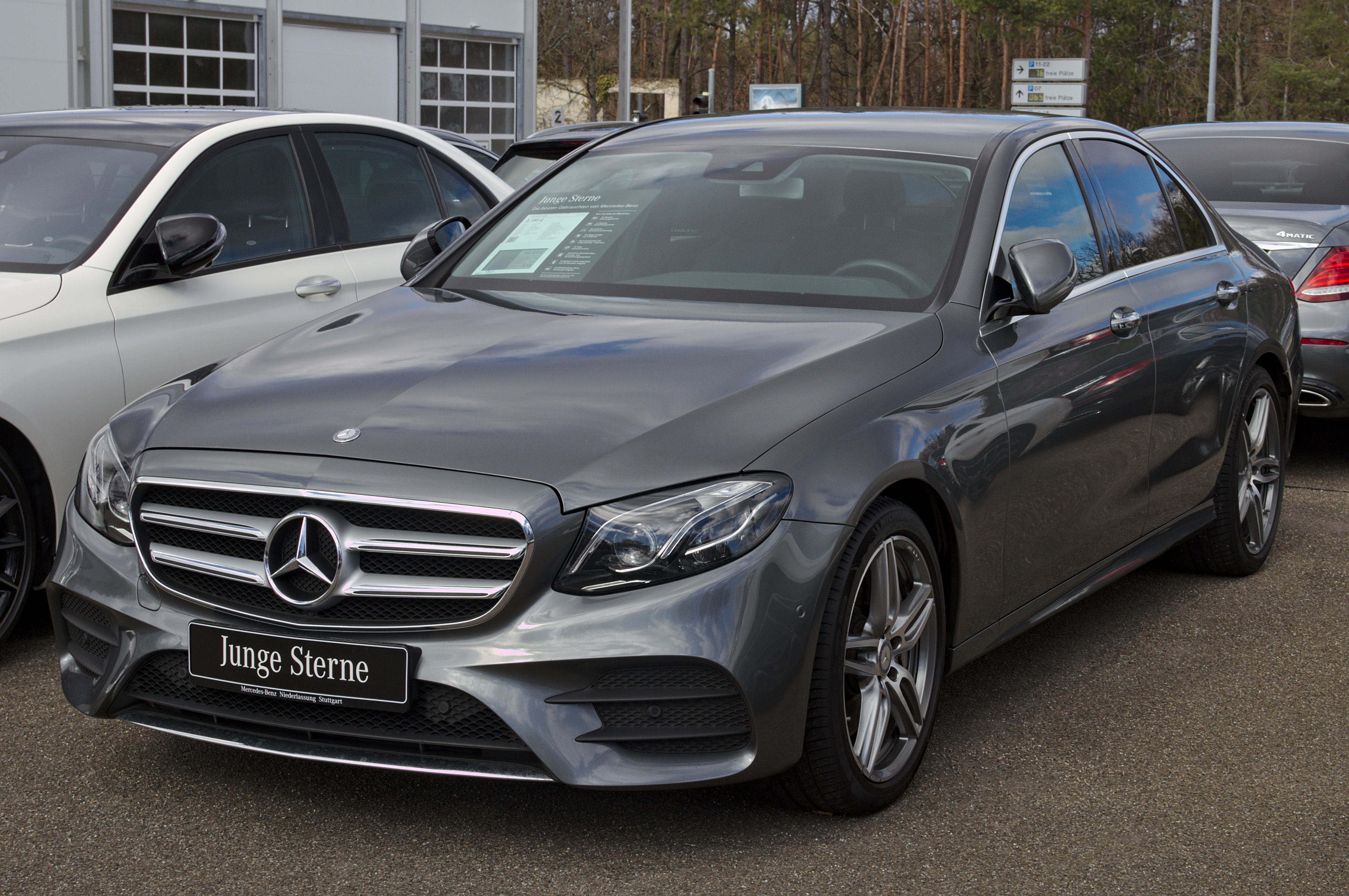 Mercedes-Benz_W213 in Stuttgart-Vaihingen